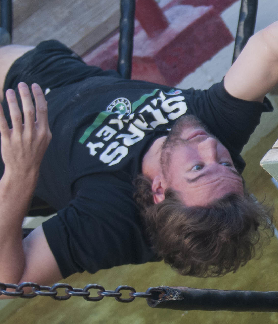 Travis Morin, a center for the American Hockey League’s Texas Stars, passes a box to Remi Elie, a Stars forward, as they maneuver through an obstacle at the Leaders Reaction Course Oct. 13 at Fort Hood, Texas. The team had to attempt many different obstacles that tested their communication and problem solving-abilities. (U.S. Army photo by Sgt. Brandon Banzhaf, 3rd Armored Brigade Combat Team Public Affairs Office, 1st Cavalry Division/released)